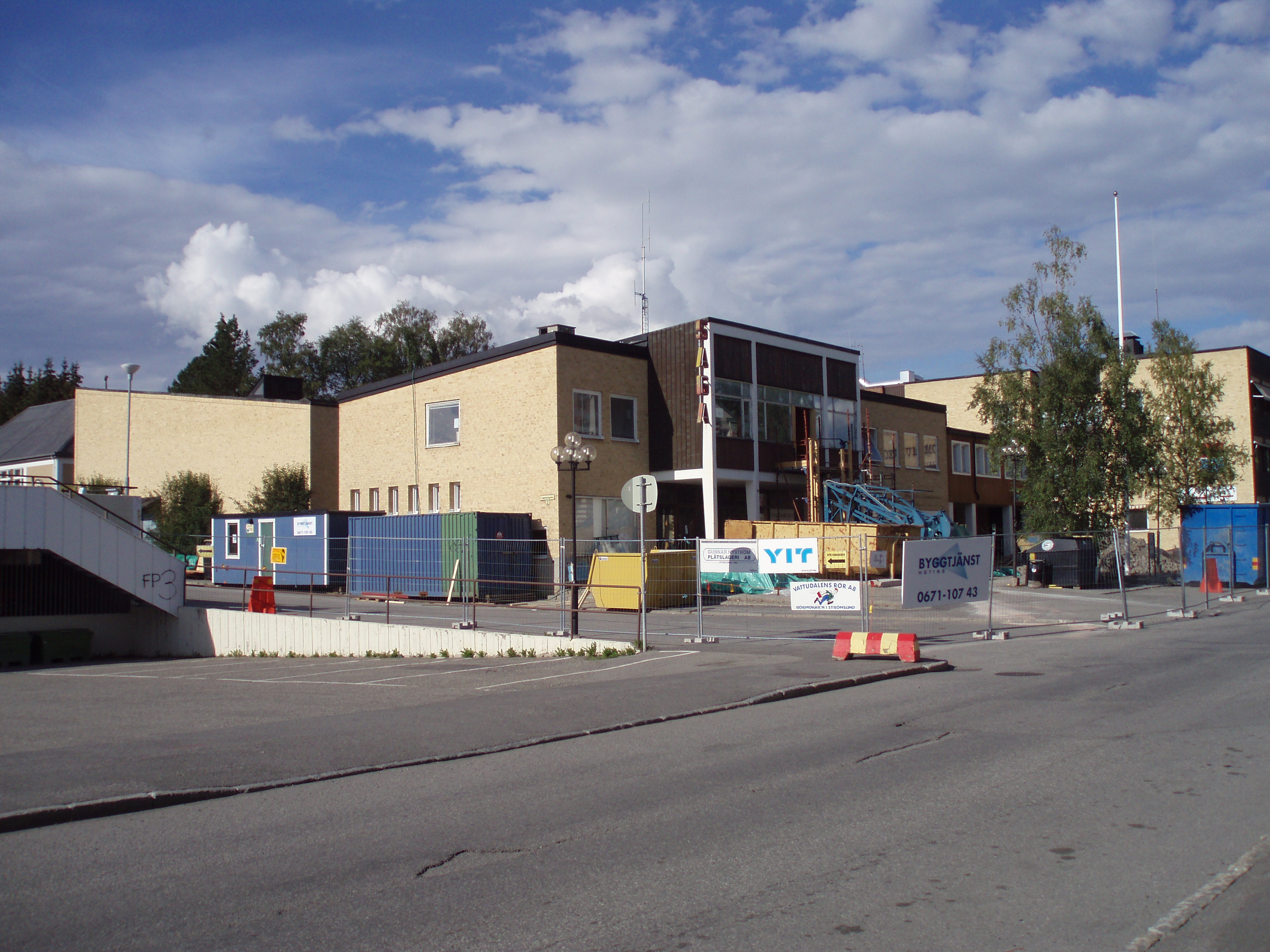 Strömsund city hall, Strömsund, Sweden. Built 1958. Photo taken in aug. 2006 by me - User:Cucumber